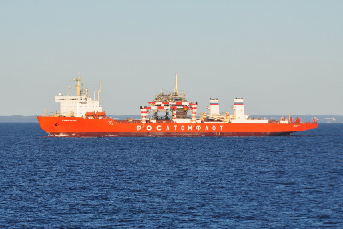 Sevmorput underway to Arkhangelsk, Gulf of Finland, Baltic Sea 25 February 2020